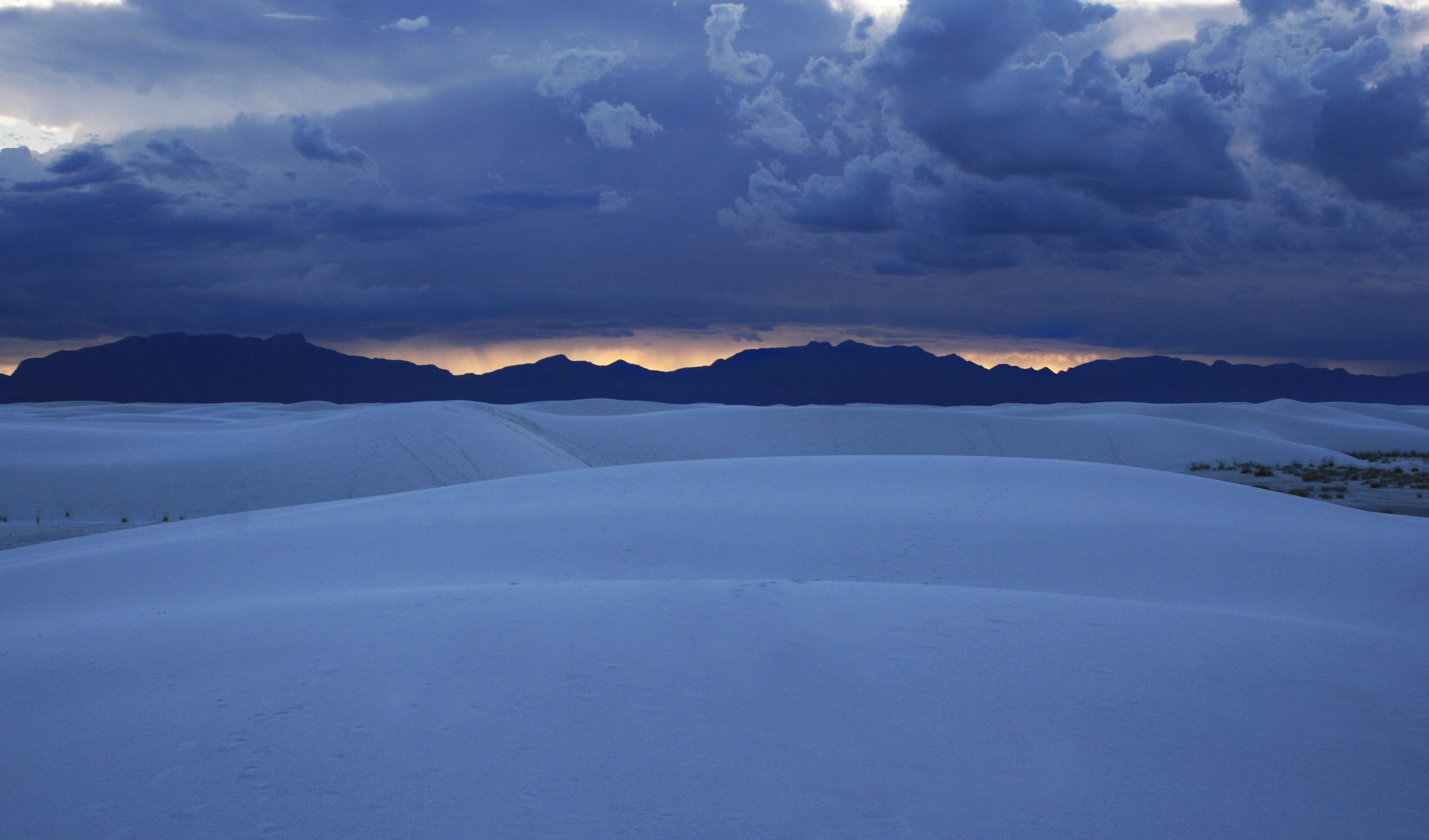 sunset on white sands national monument